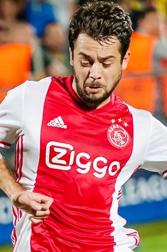 Amin Younes